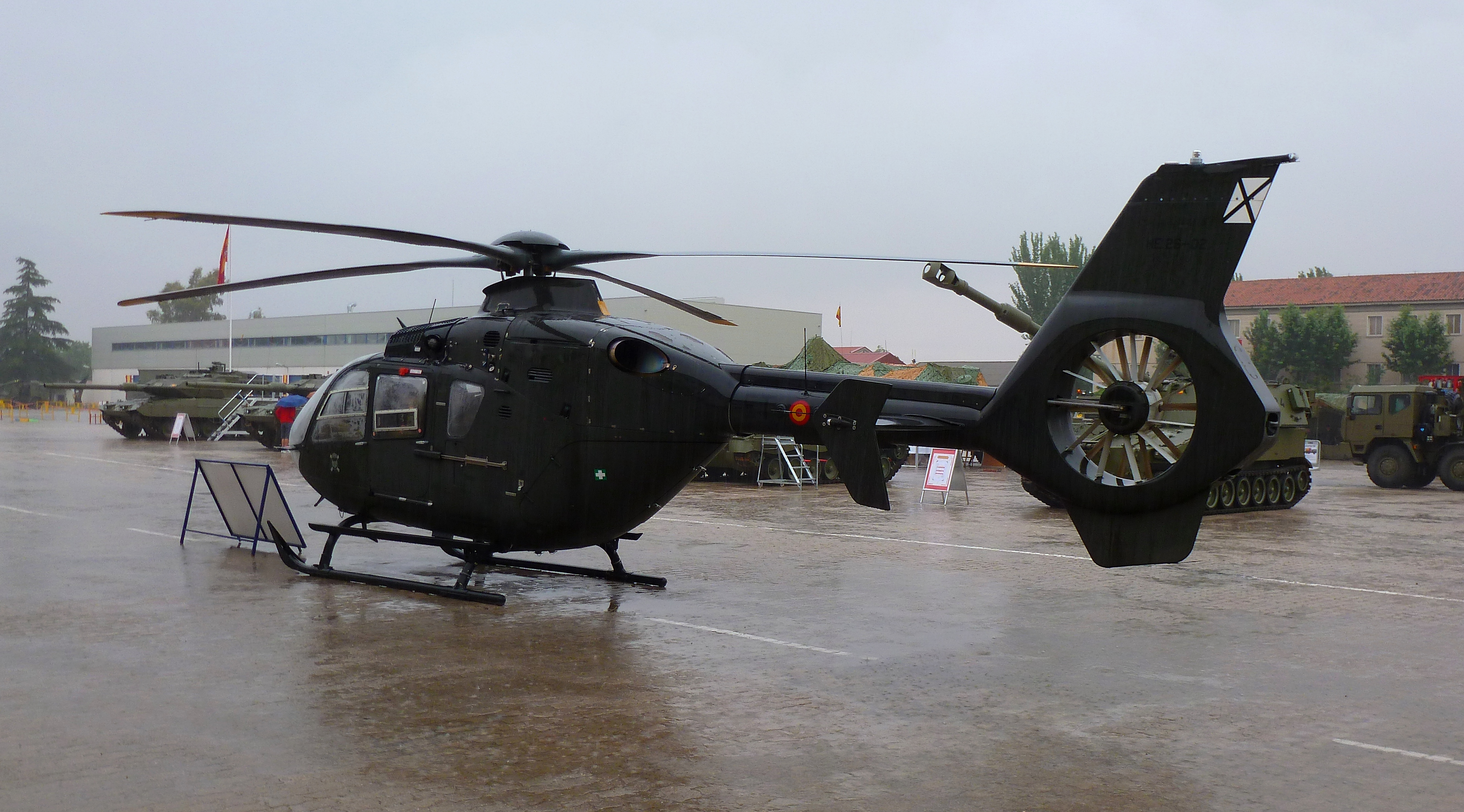 Eurocopter EC-135T-2 of the Spanish Army.